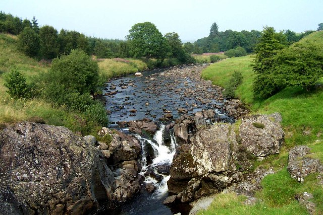 Water of Ken. This is the water of Ken upstream from High Bridge of Ken on the B7000 road south of Carsphairn.